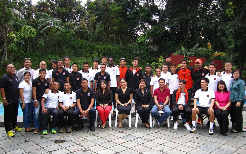 Loyola Meralco Spark F.C. players competing at the 2013 Singapore Cup along with officials.